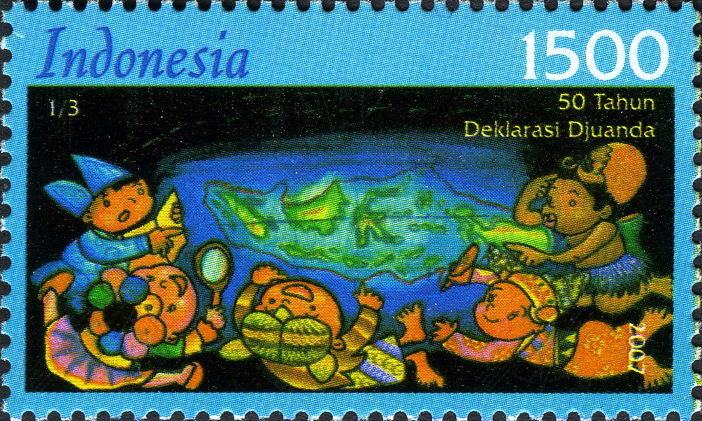 Stamps of Indonesia